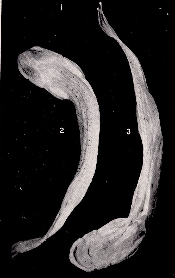 Homodiaetus anisitsi Eigenmann and Ward (Type) Subject: Trichomycteridae, Catfishes Tag: Fish